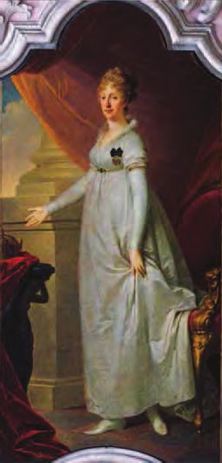 Portrait of Maria Theresa of Naples and Sicily (1772-1807), Holy Roman Empress